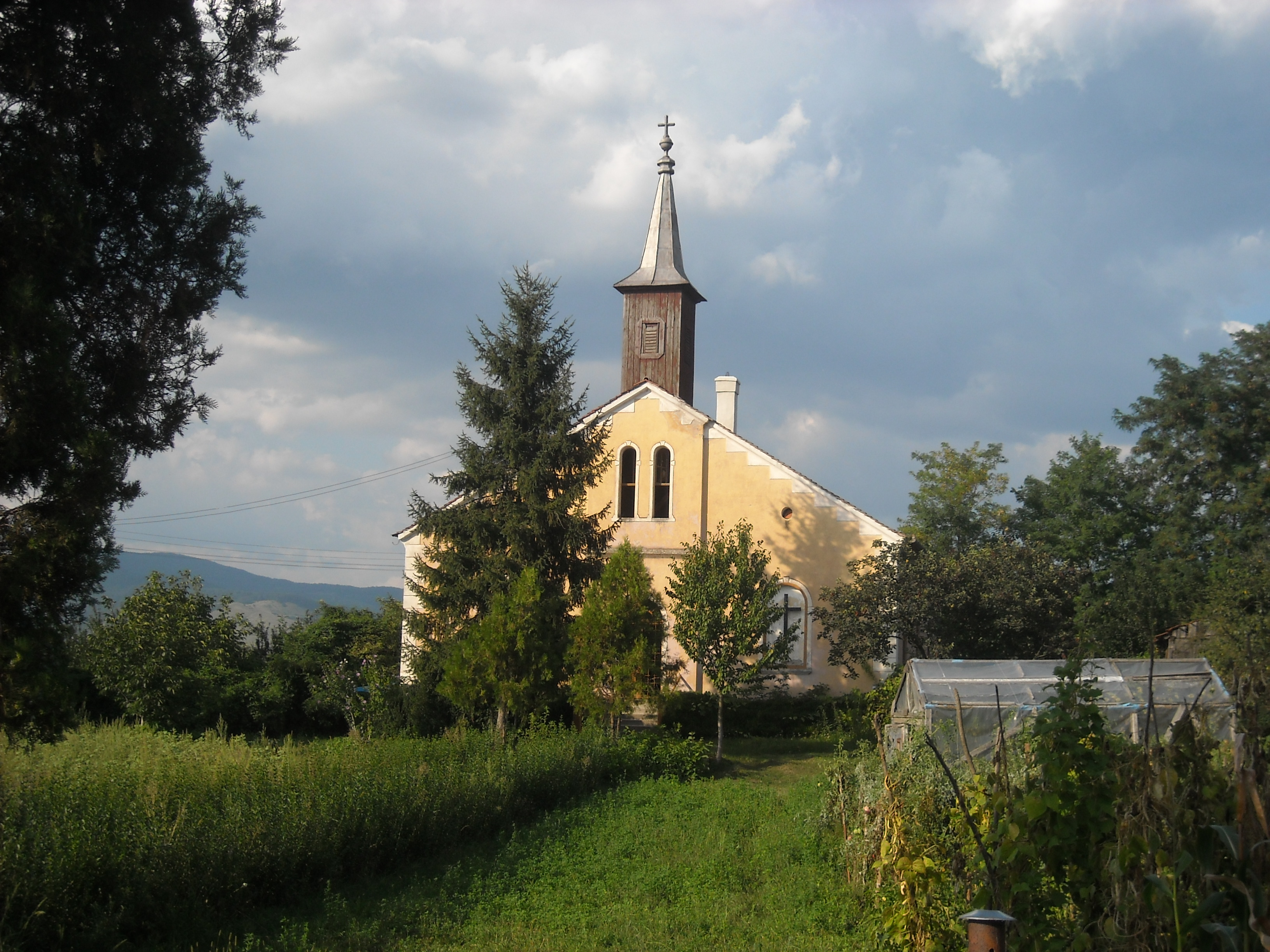 Lutheran church in Aurel Vlaicu (Binţinţi, Benzendorf, Bencenc) village, Hunedoara County, Romania